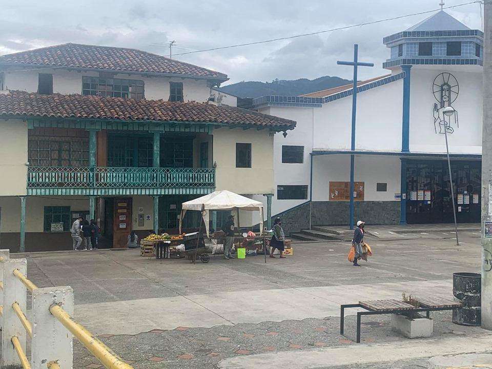 El Mercado se ubica en el Centro Parroquial de checa y atiende los días sábados y domingos.